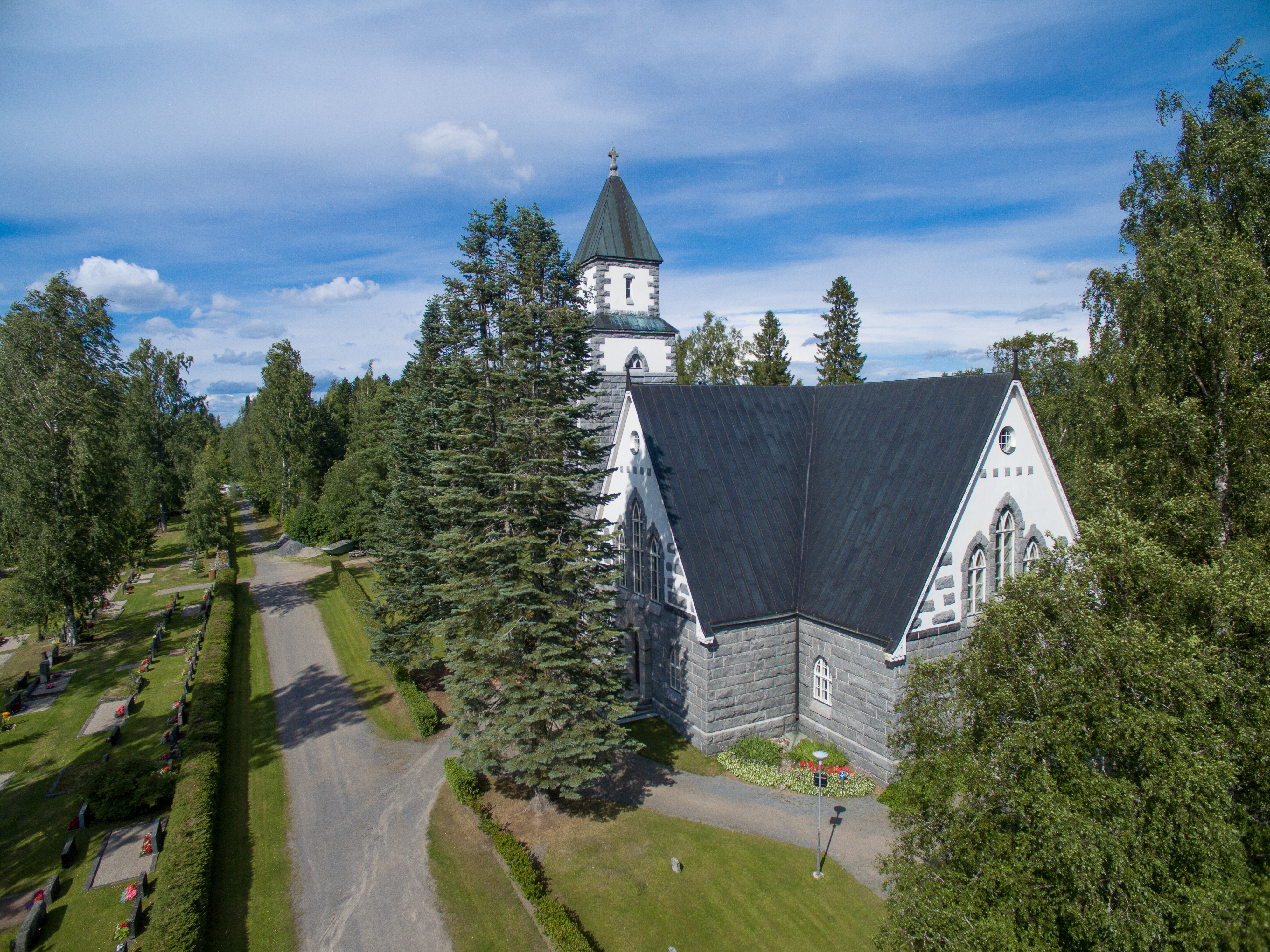 Hirvensalmi Church photographed from the air on 2 August 2015